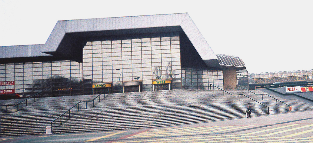 Image of Spens Sports Center in Novi Sad.